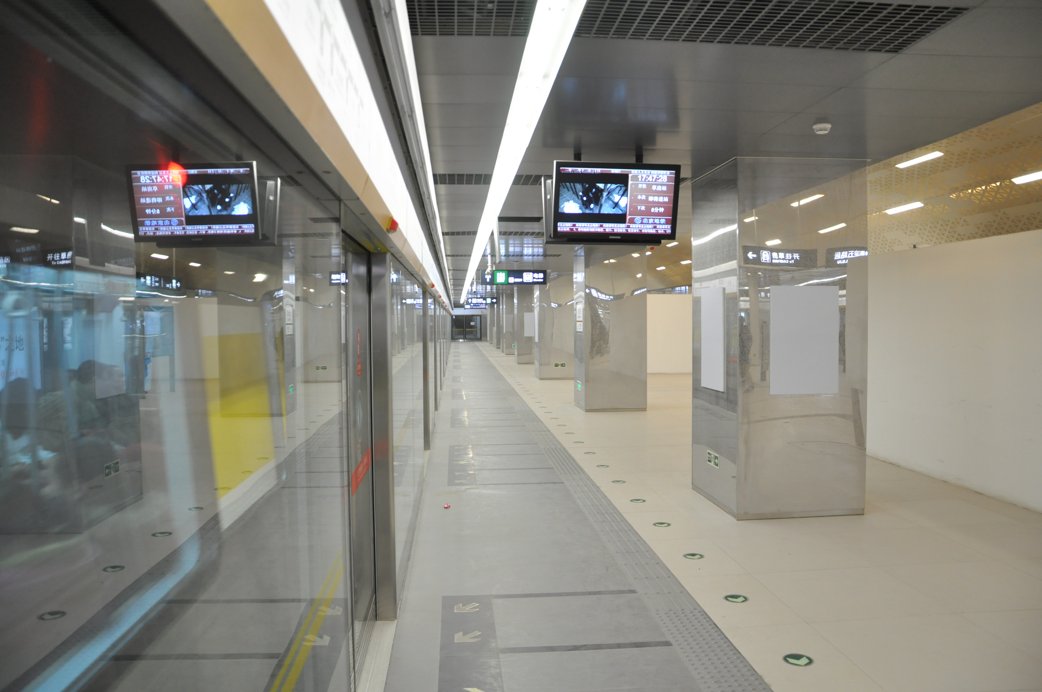 Platform of Jintailu station, Line 6, Beijing Subway.